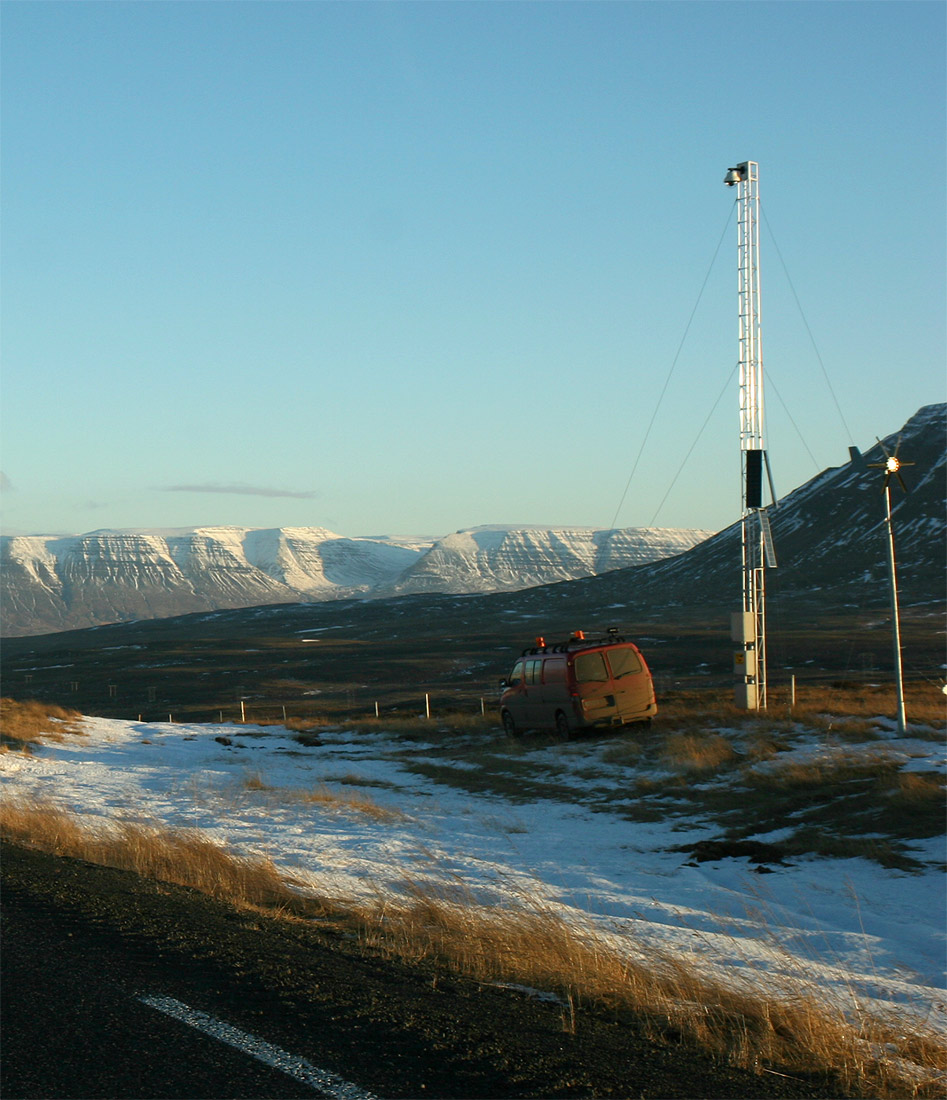 Vatnsskarð road conditions and weather station. Photo taken on 13:57, November 21, 2007 in Iceland. Photo by me user:debivort (or friend, with permission given to freely license photo).